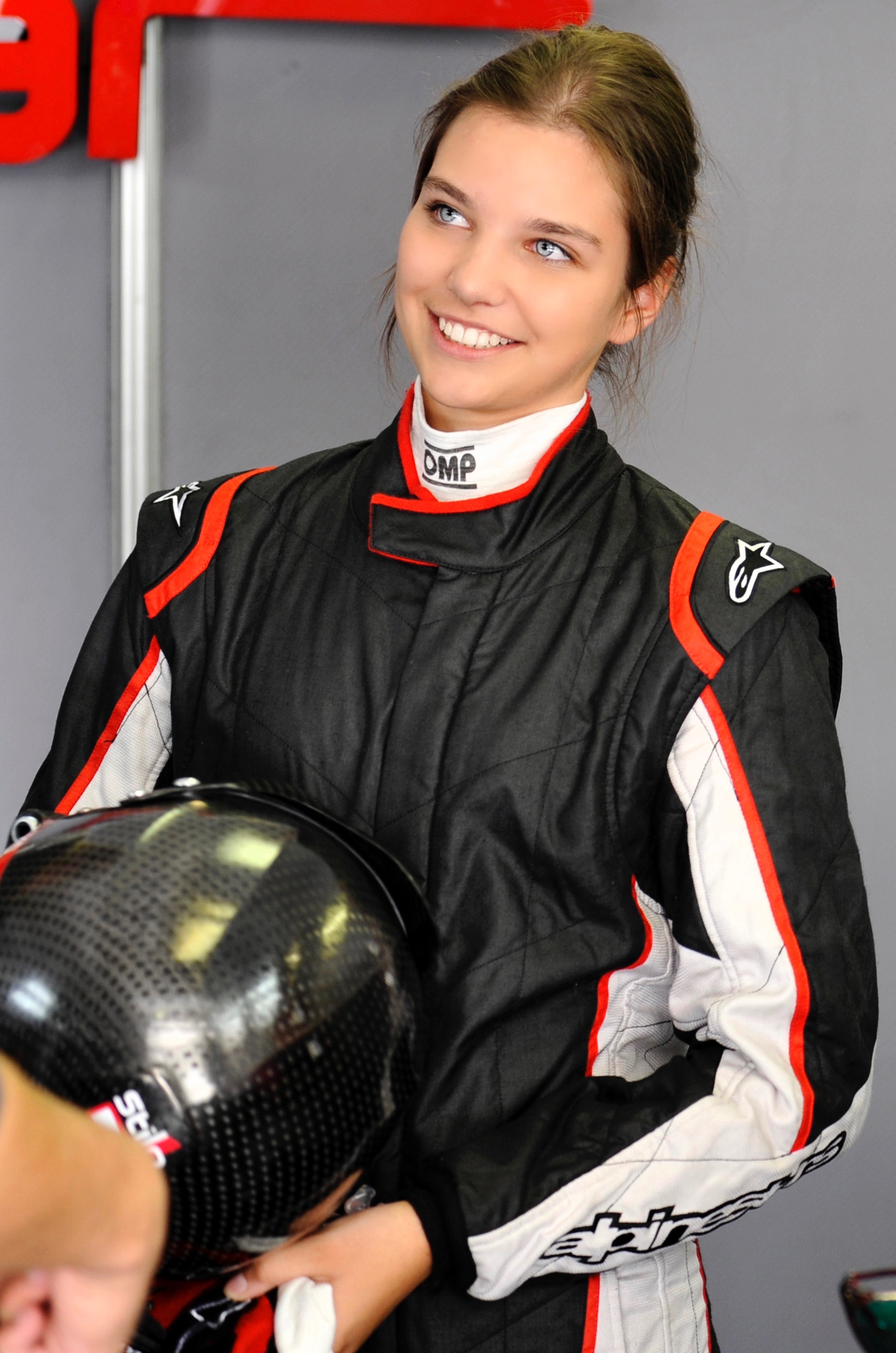 Vivien Keszthelyi racing driver, OXXO Motorsport